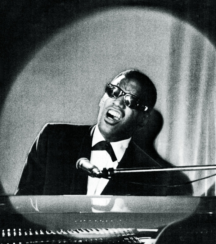 Trade ad for Ray Charles's single "Yesterday", cropped and cleaned in a graphics editing program. The original can be viewed at the source below.